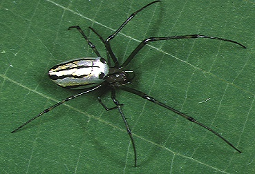 female Leucauge blanda from Okinawa.